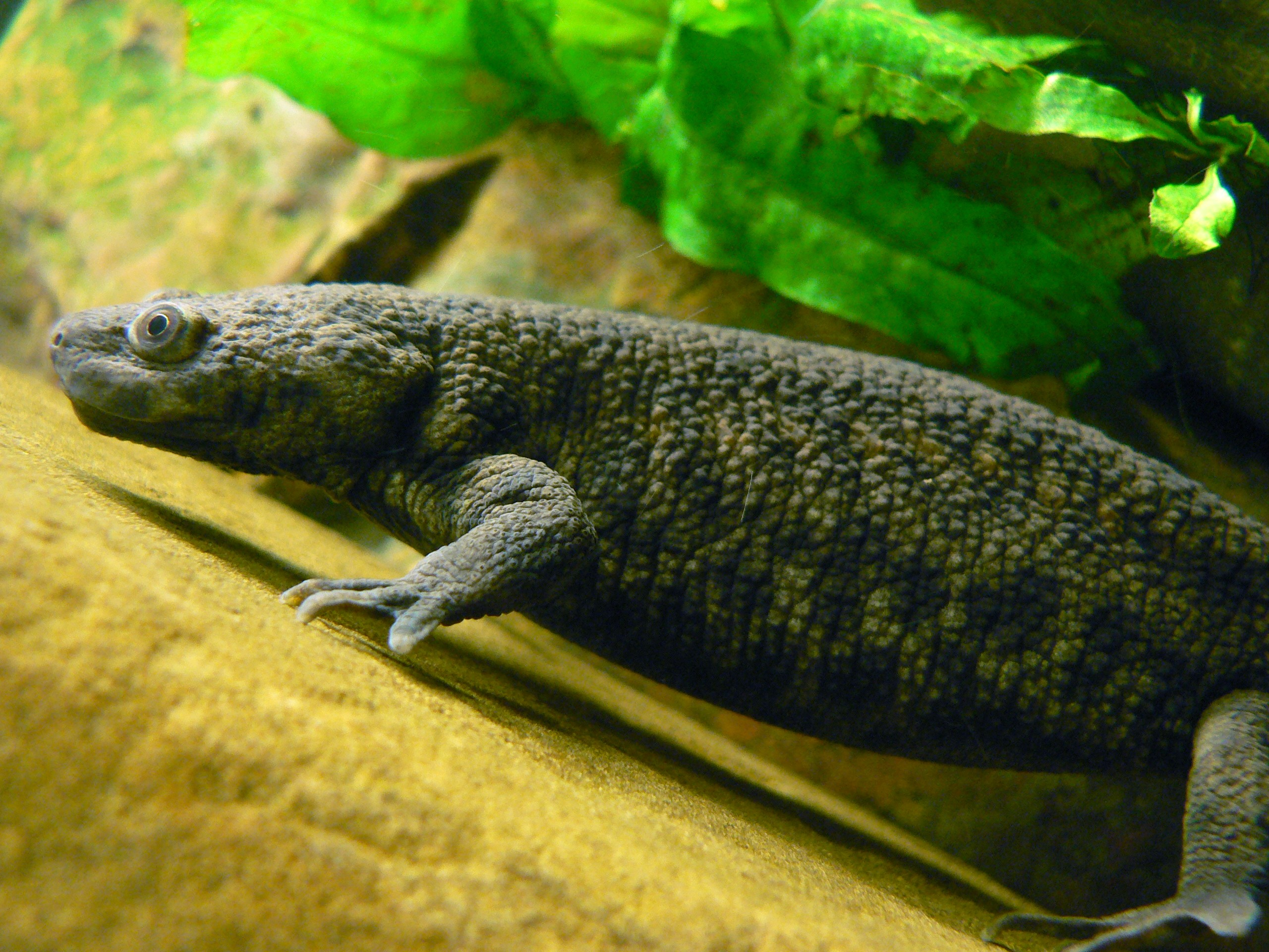 Photo taken by Pengo (self) The Iberian Ribbed Newt (Pleurodeles waltl) at the Steinhart Aquarium, San Francisco (at the temporary accommodation on Howard Street)